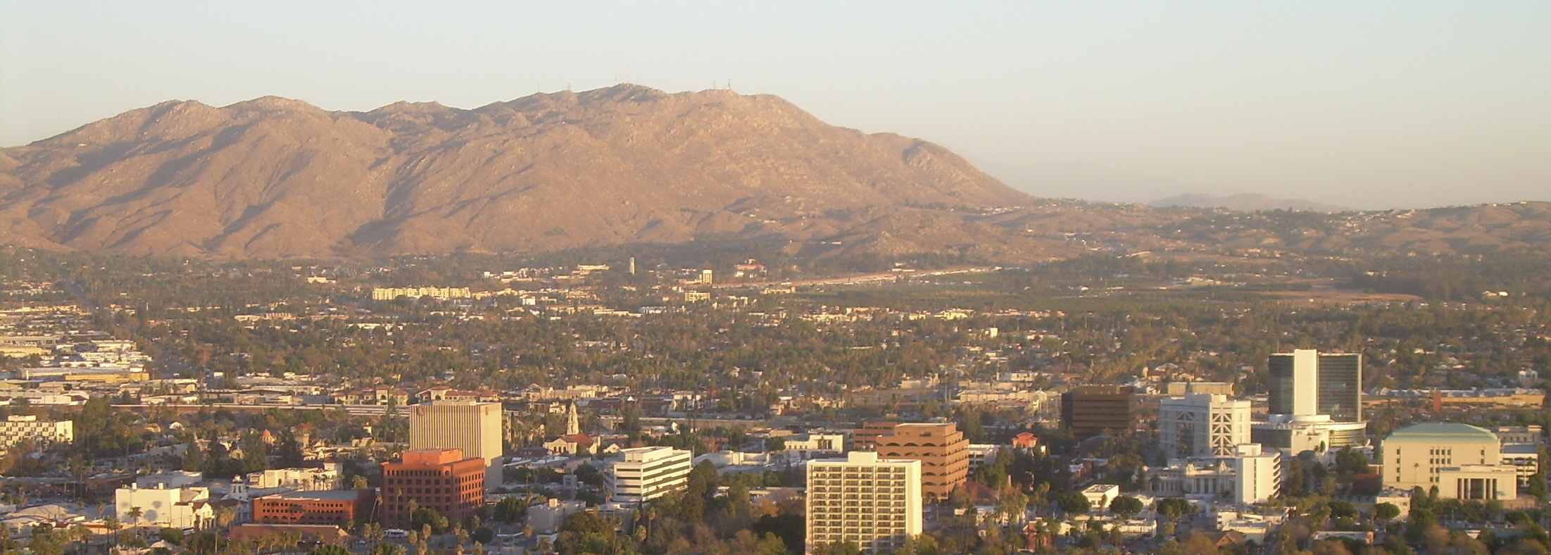 Box Springs Mountains — with Riverside, California in forground.